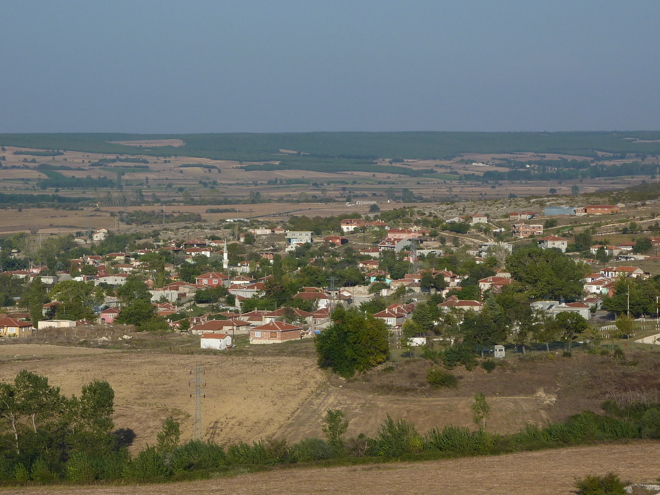 A morning view of the city of Vize and surrounding countryside from a hill north of town